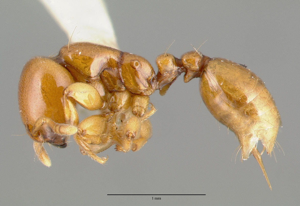 Profile view of ant Liomyrmex gestroi specimen castype06922.